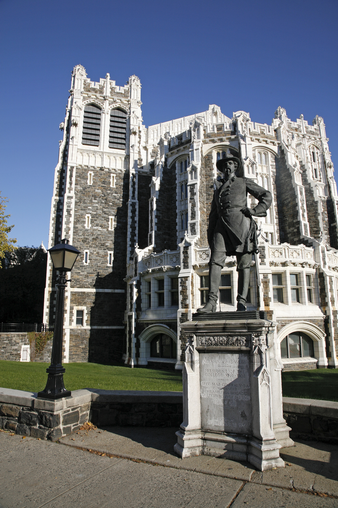 Shepard Hall, City College of New York, Convent Avenue, New York City, New York, United States, Architecture School, Department of Media and Communications